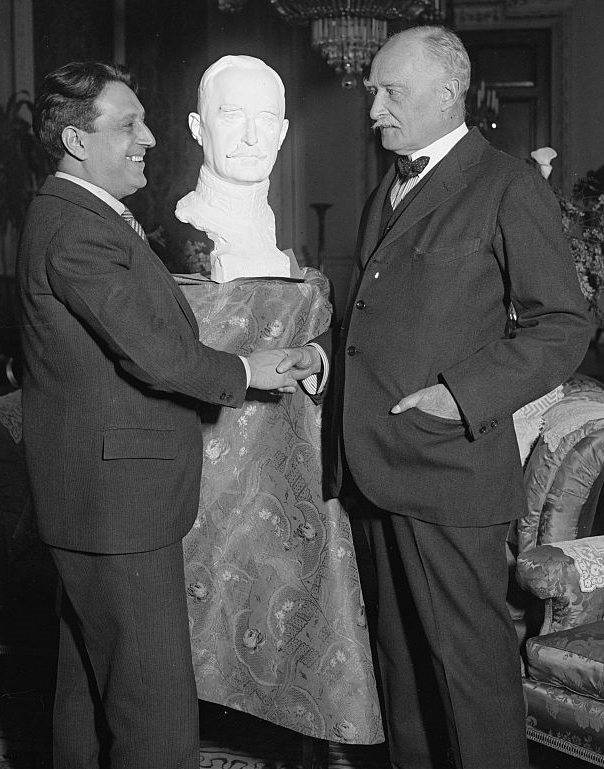 Italian sculptor Edgardo Simone (1890-1948) with British diplomat Sir Esme Howard and his bust.